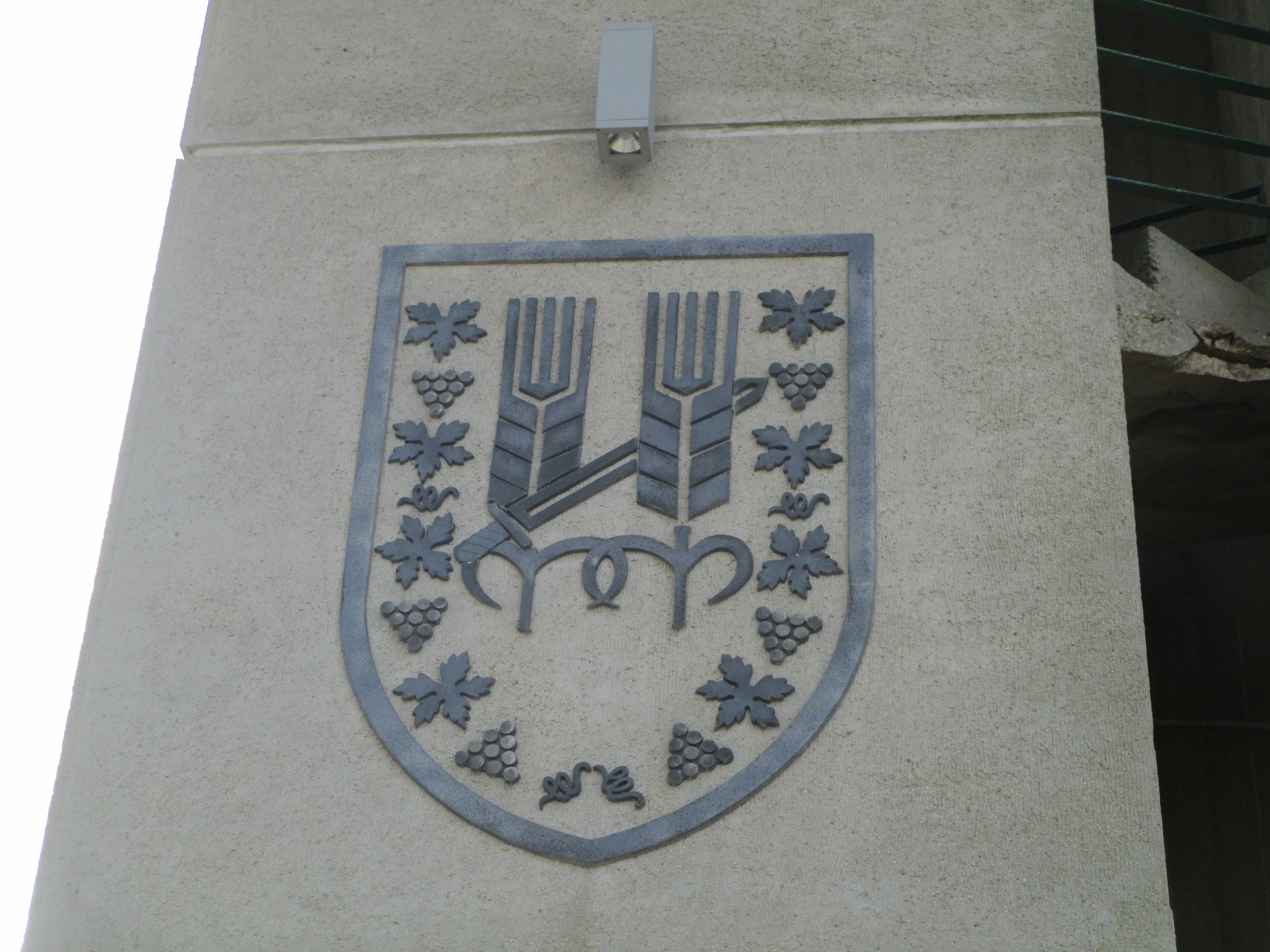 Radar Hill